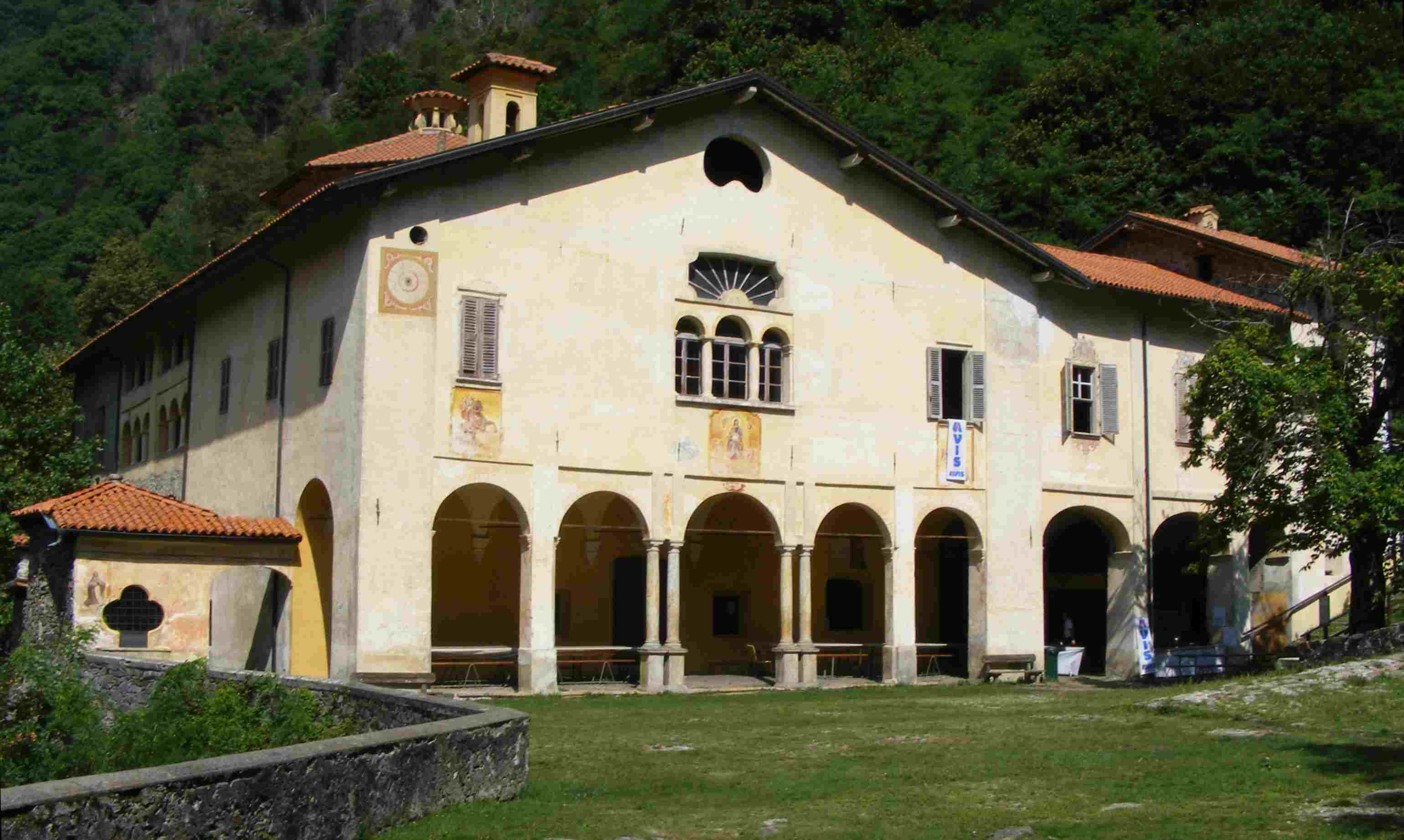 Cavallero sanctuary (Coggiola, BI, Italy)